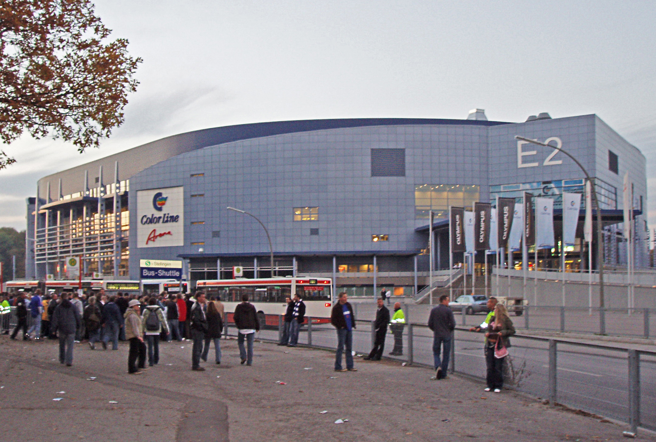 View on the Color Line Arena from the AOL Arena in Hamburg